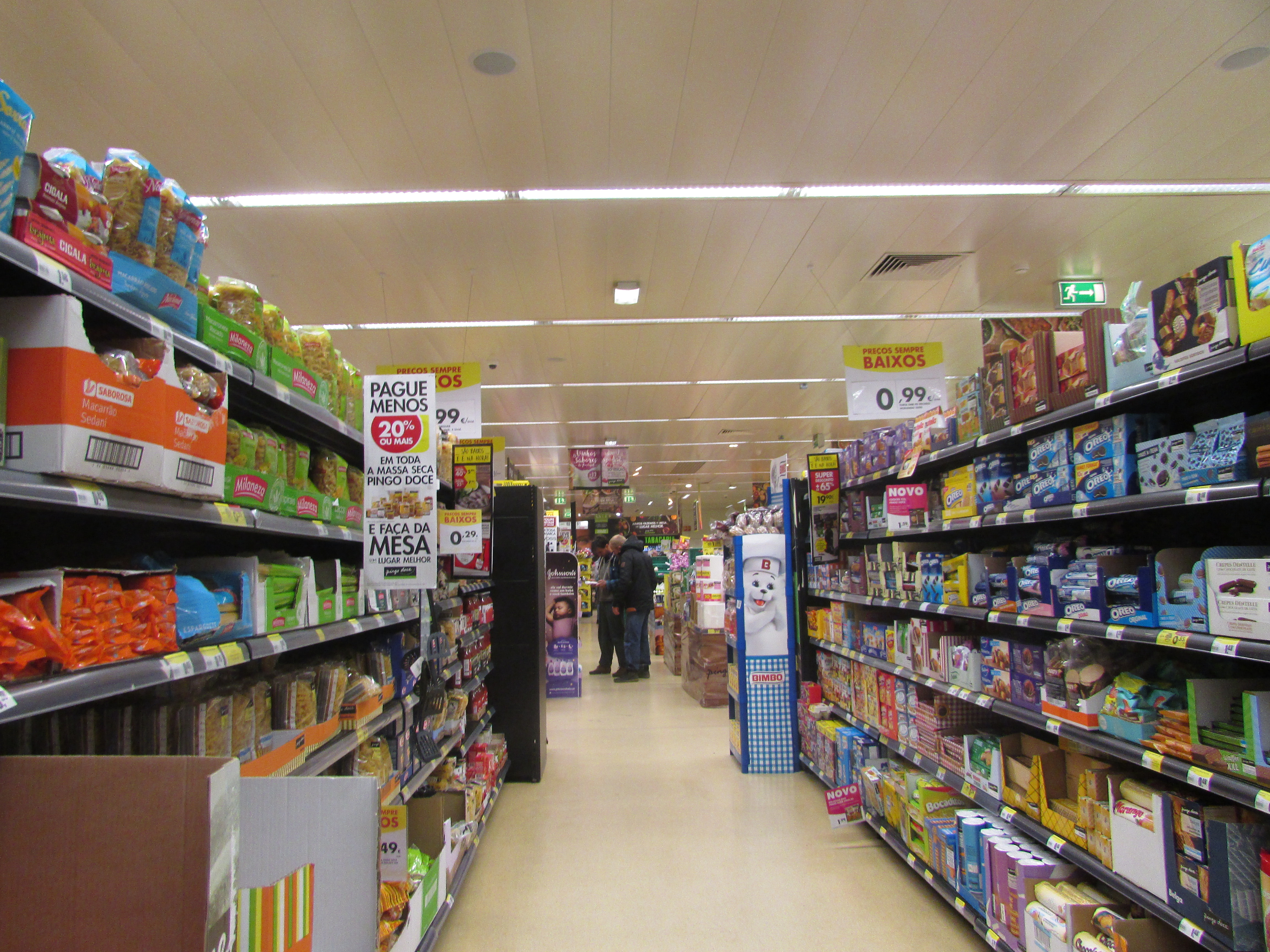 Looking down a shopping aisle inside the Pingo Doce supermarket located on the corner of Rua do Vilageado and the Rua Alves Redol in the city of Albufeira, Algarve, Portugal.